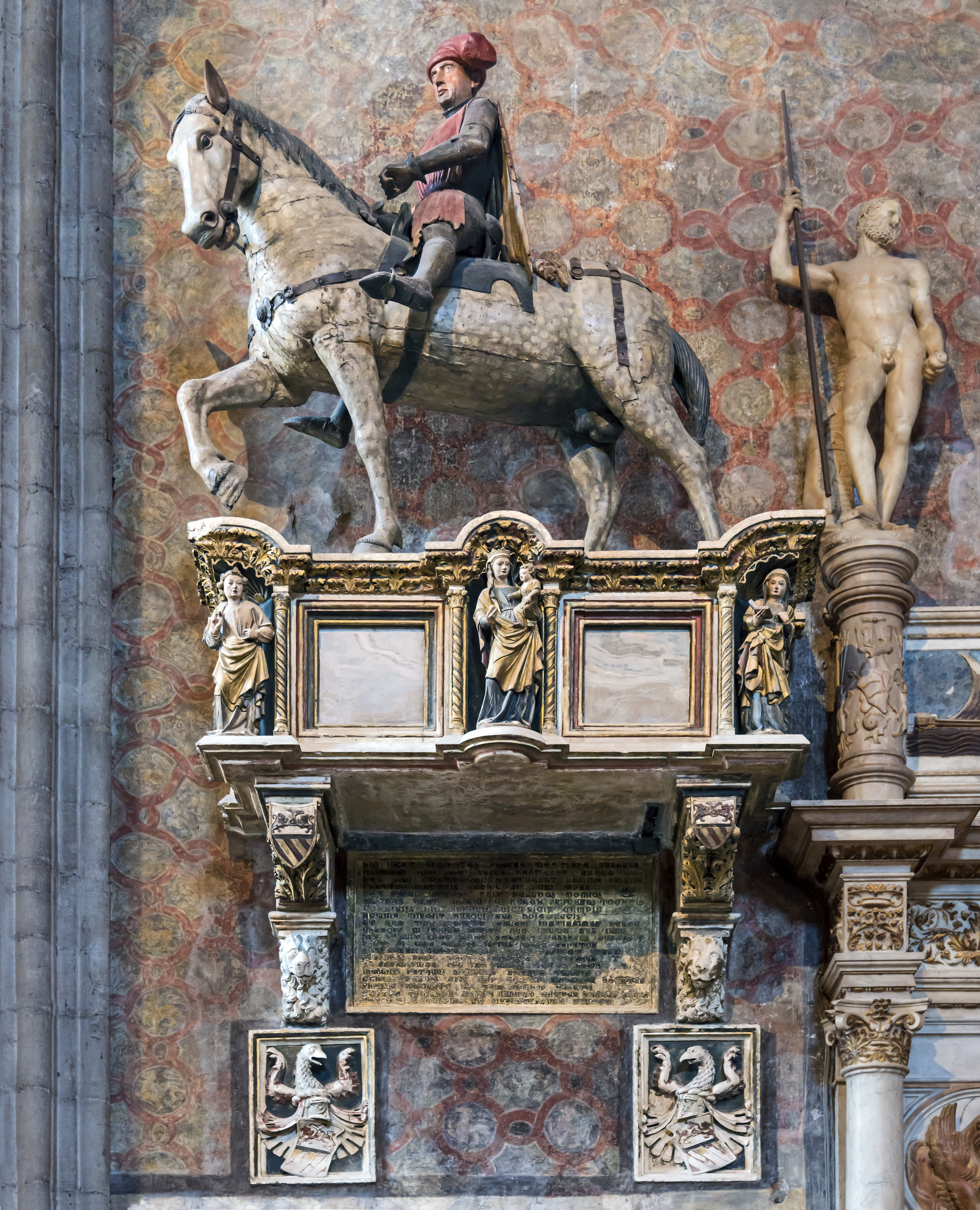 Santa Maria Gloriosa dei Frari. Monument to Paolo Savelli. Roman patrician serving the Serenissima, who died in 1405; the urn, still Gothic style, is adorned with statues of angels and a Madonna and Child and is surmounted by the equestrian statue of the deceased, gilt and polychrome wood: this is the first dedicated to one of the captains of the Republic. Attributed to the sculptor Rinaldino di Francia.